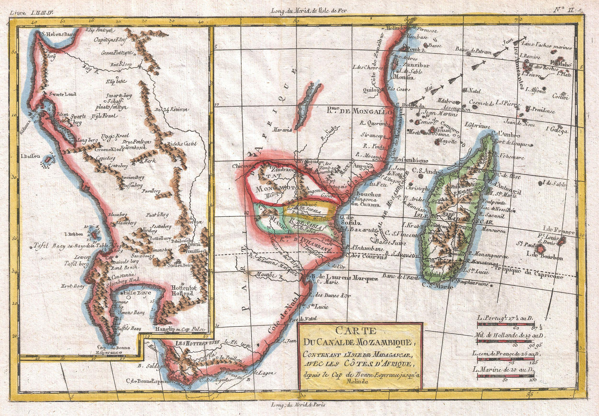 A fine example of Rigobert Bonne and G. Raynal’s 1780 map Southern Africa. Essentially two maps in one which, between them, cover the entire southern portion of the continent. The main map, on the right, covers from the Cape of Good Hope north as far as Zanzibar and modern day Kenya, focusing on the gold rich kingdom of Monomotapa. This region, today part of Mozambique and Zimbabwe, was once rich in gold and was often associated with the Biblical kingdom of Ophir, which is mentioned in the legend of King Solomon's Mines. This was one of the first parts of eastern Africa to be explored and colonized by Portuguese traders looking for a source of gold to rival that of the Spaniards in Mexico and Peru. Unfortunately for everyone involved the Mines of Solomon had been all but exhausted shortly before the Europeans arrived. Just north of Monomotapa a very embryonic mapping of Lake Malawi appears with no defined northern terminus. Offshore Madagascar and the many Indian Ocean islands surrounding it are well mapped with considerable though inaccurate inland detail. Arrows show the direction of tradewinds and dotted lines identify some offshore reefs and other dangers. The secondary map, occupying the left hand quadrants of the chart, details the Dutch claims in the western of South Africa from the Cape of Good Hope north as far as St. Helens Bay. Notes various indigenous groups, forts, mountain ranges and rivers. Also notes the Isle Robben surrounded by depth soundings. This was a notorious prison island near of Cape Town. Drawn by R. Bonne for G. Raynal’s Atlas de Toutes les Parties Connues du Globe Terrestre, Dressé pour l'Histoire Philosophique et Politique des Établissemens et du Commerce des Européens dans les Deux Indes .